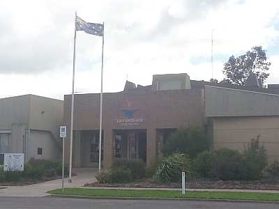 Yarriambiack Shire Offices. Lyle Street Warracknabeal